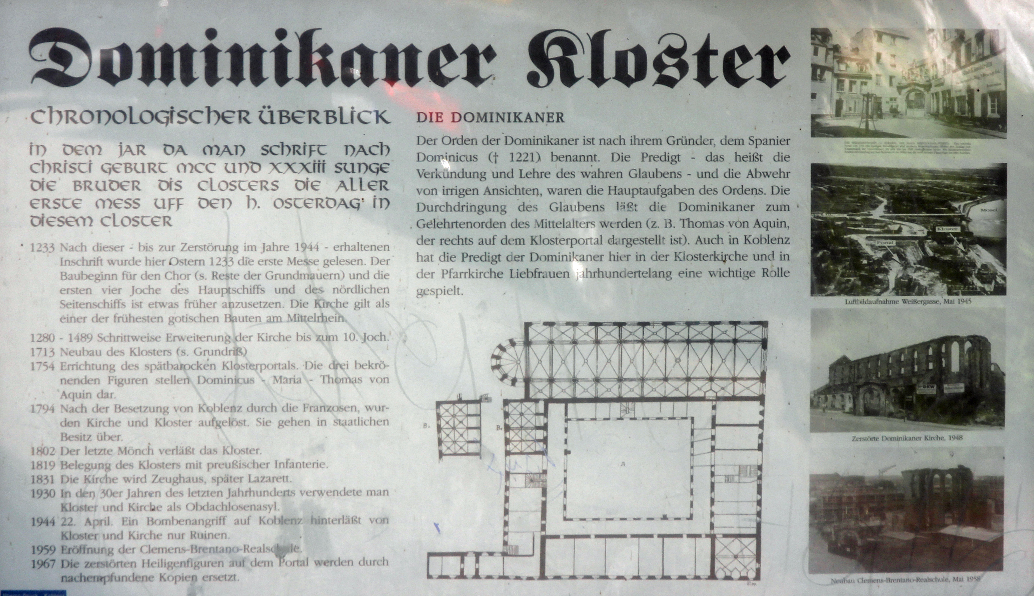 Plaque in Koblenz